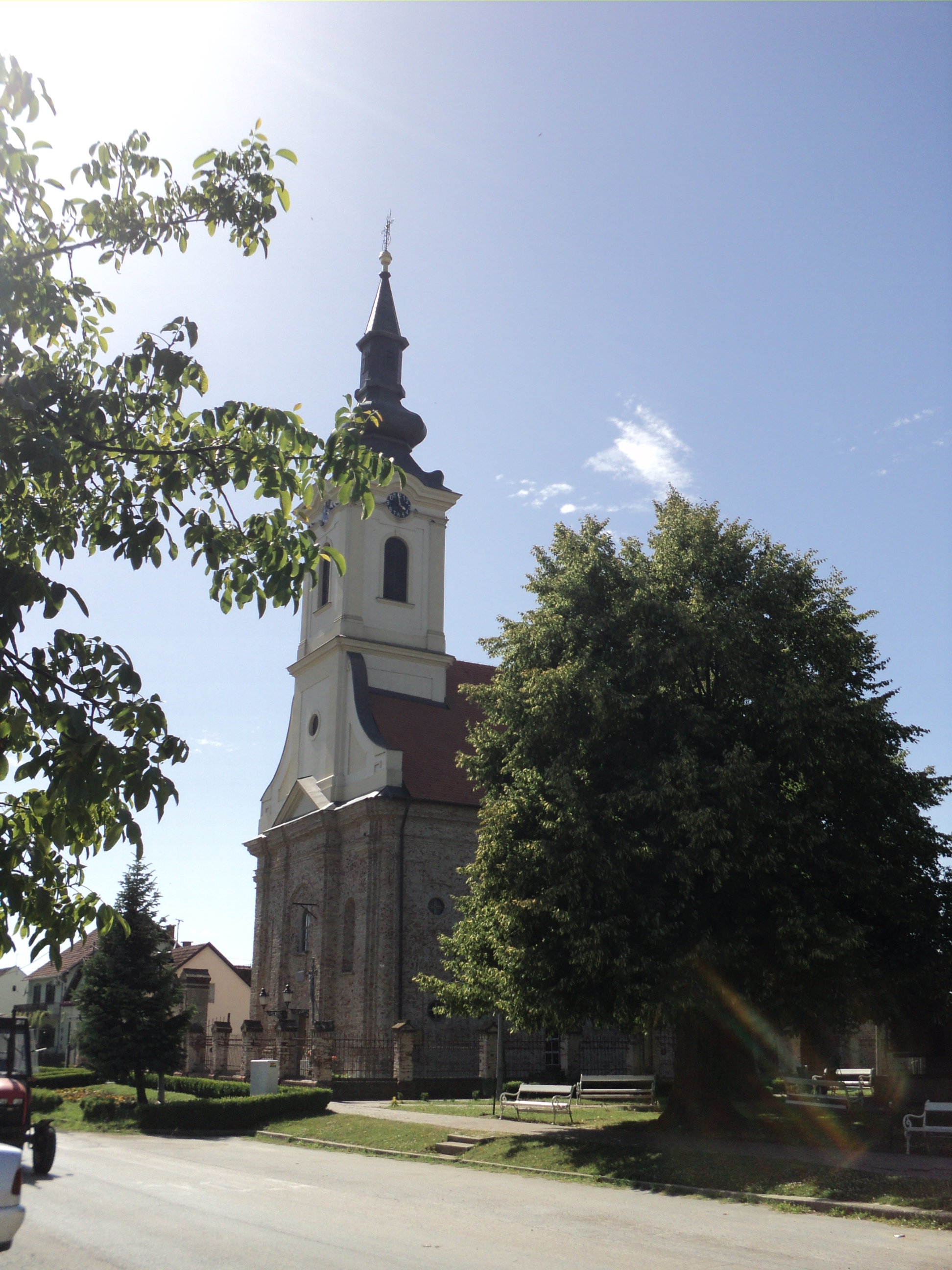 Church in Komletinci.